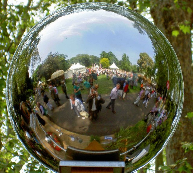 Reflections of Chelsea flower show 2010, Data from Geograph: Description: In the picnic area. ICBM: 51.487361516696, -0.15488997012993 Location: (about 1 km from) near to Chelsea, Kensington And Chelsea, Great Britain.